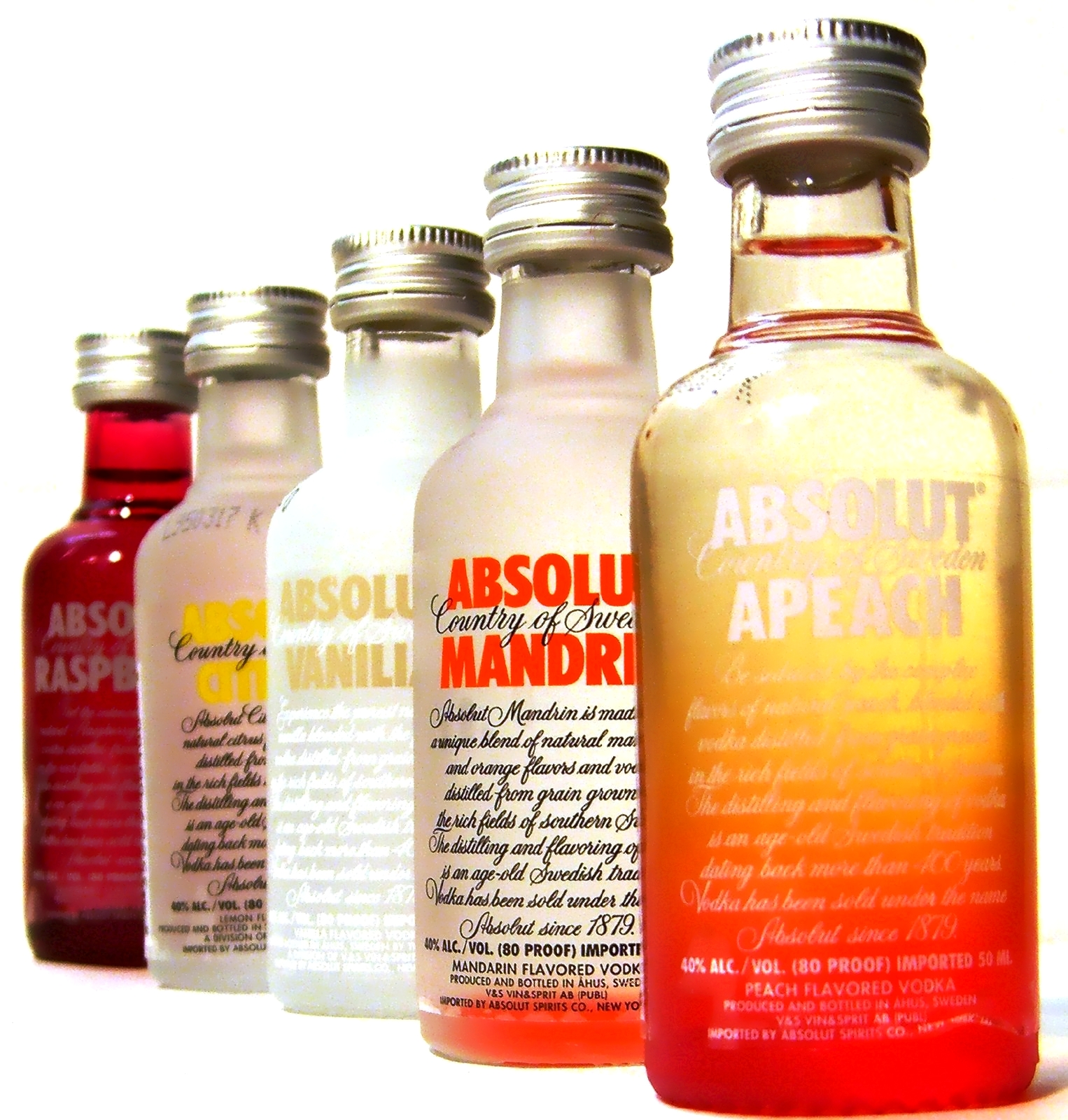 all in a row